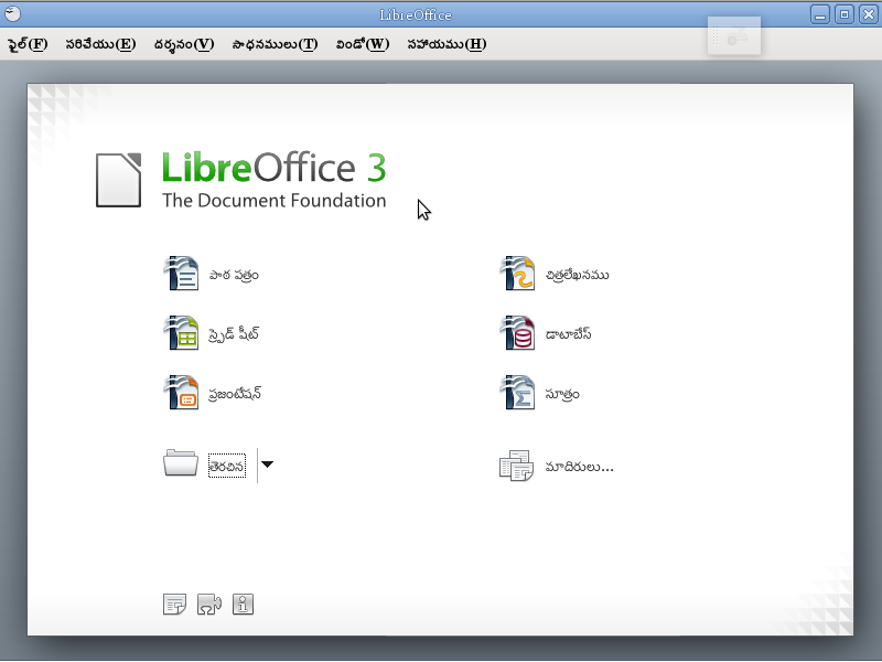 Screenshot of Libreoffice dashboard